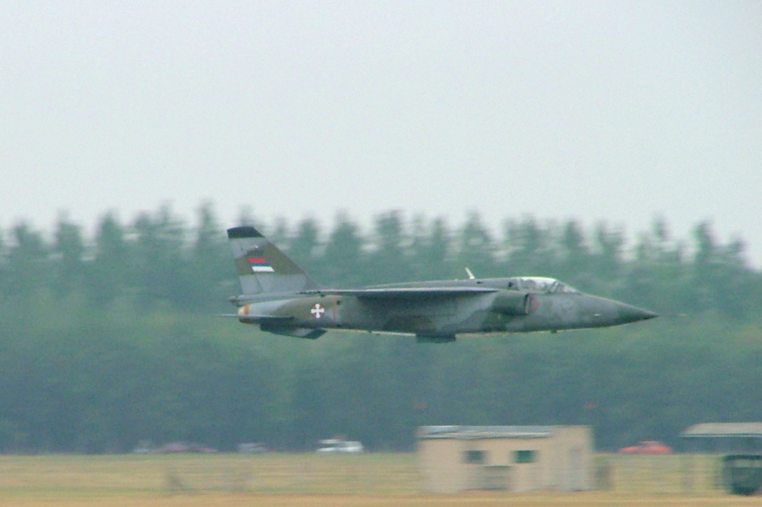 J-22 Orao of Sebian Air Force in low level, high speed flight, Kecskemét, 2007.jpg